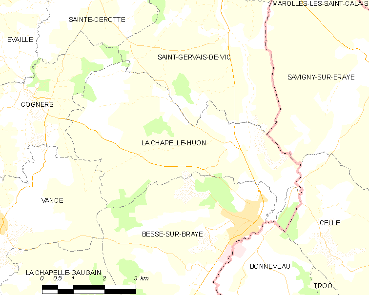 Map of French municipality